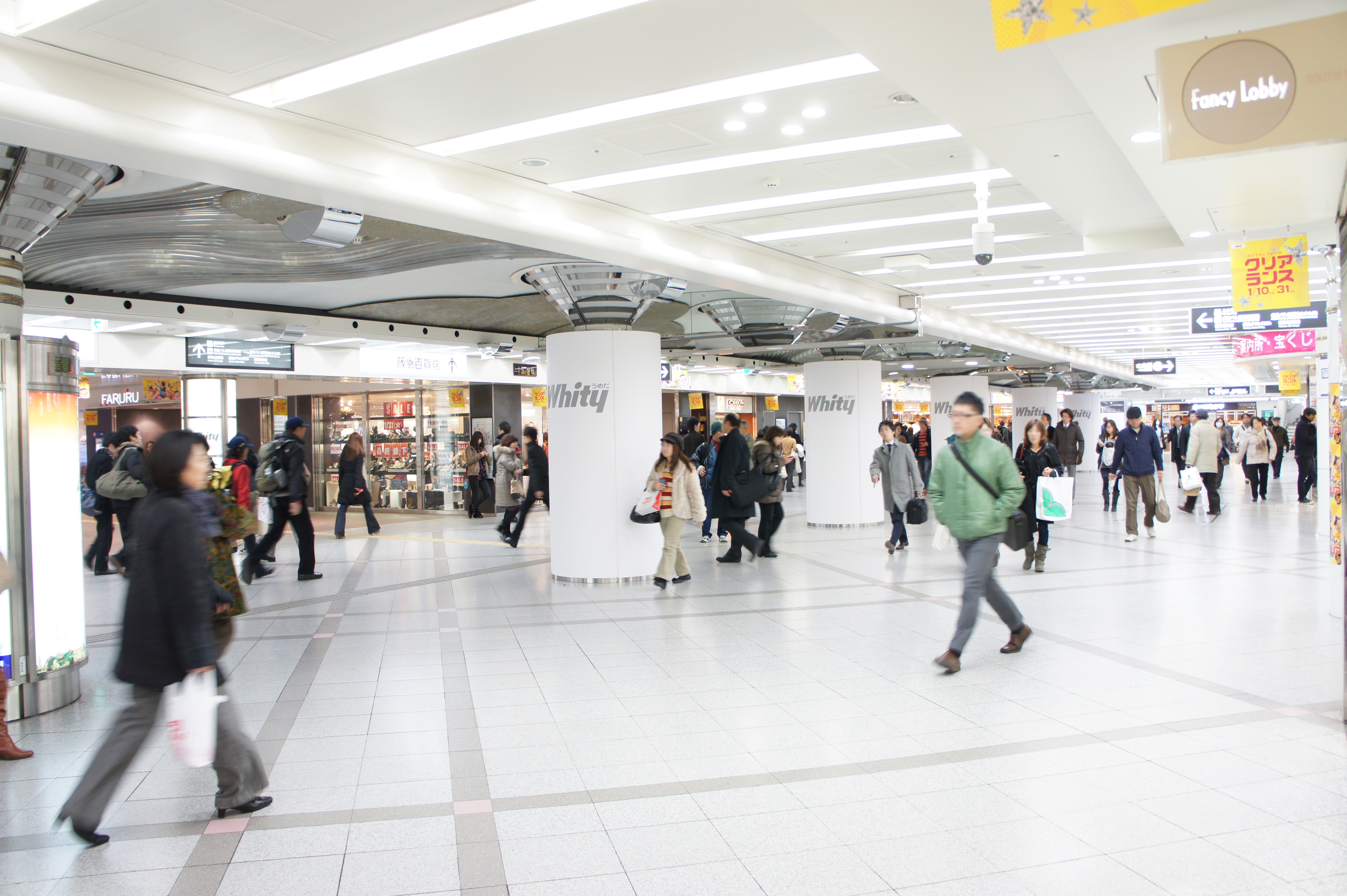 Whity Umeda, Komatsubaracho Kita-ku Osaka JAPAN